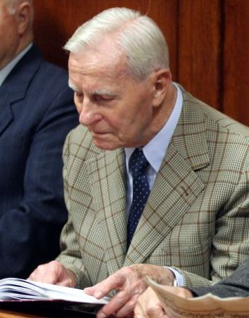 Polish general Tadeusz Tuczapski (1922-2009)